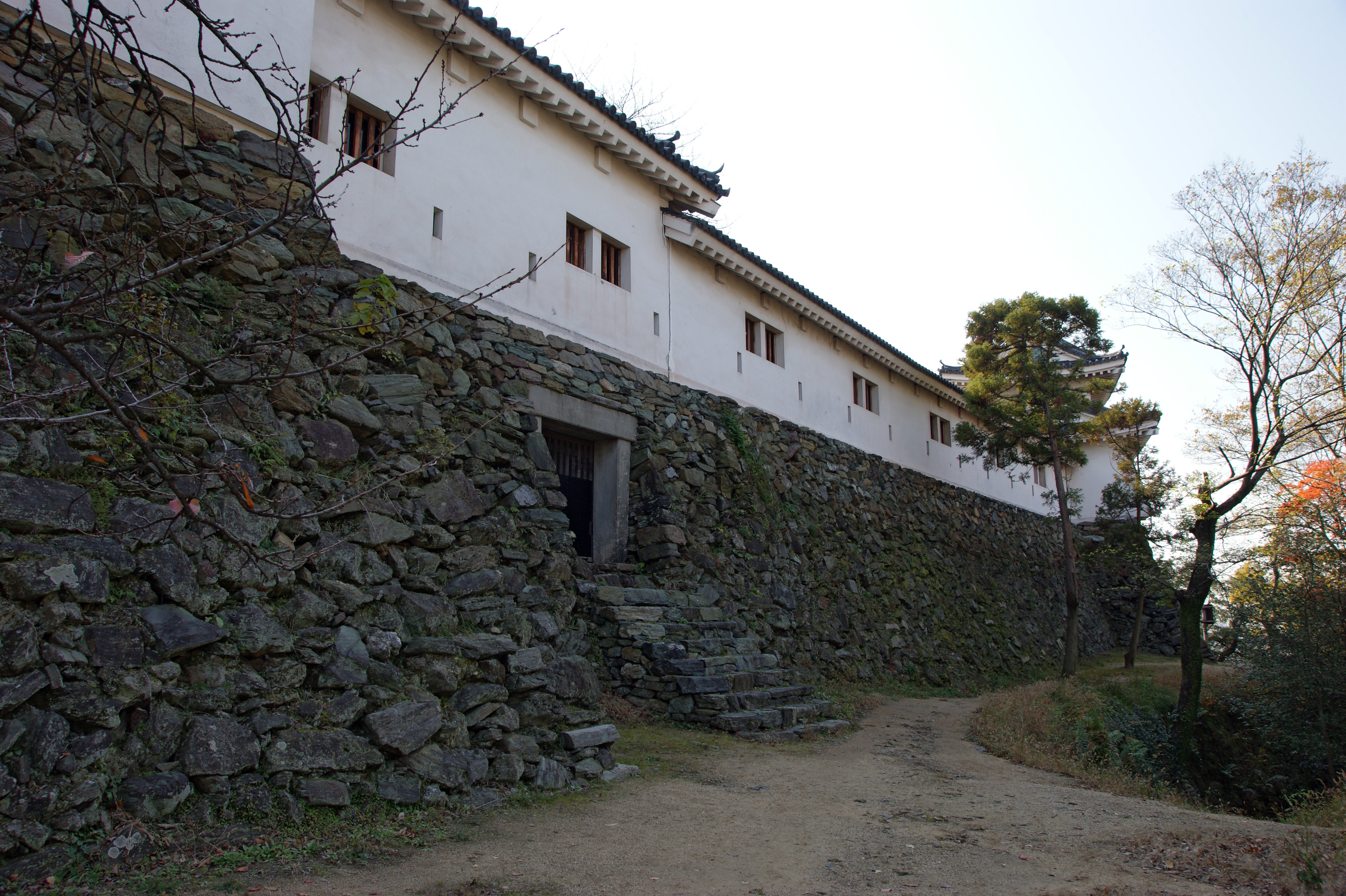 Wakayama Castle, Wakayama, Wakayama prefecture, Japan